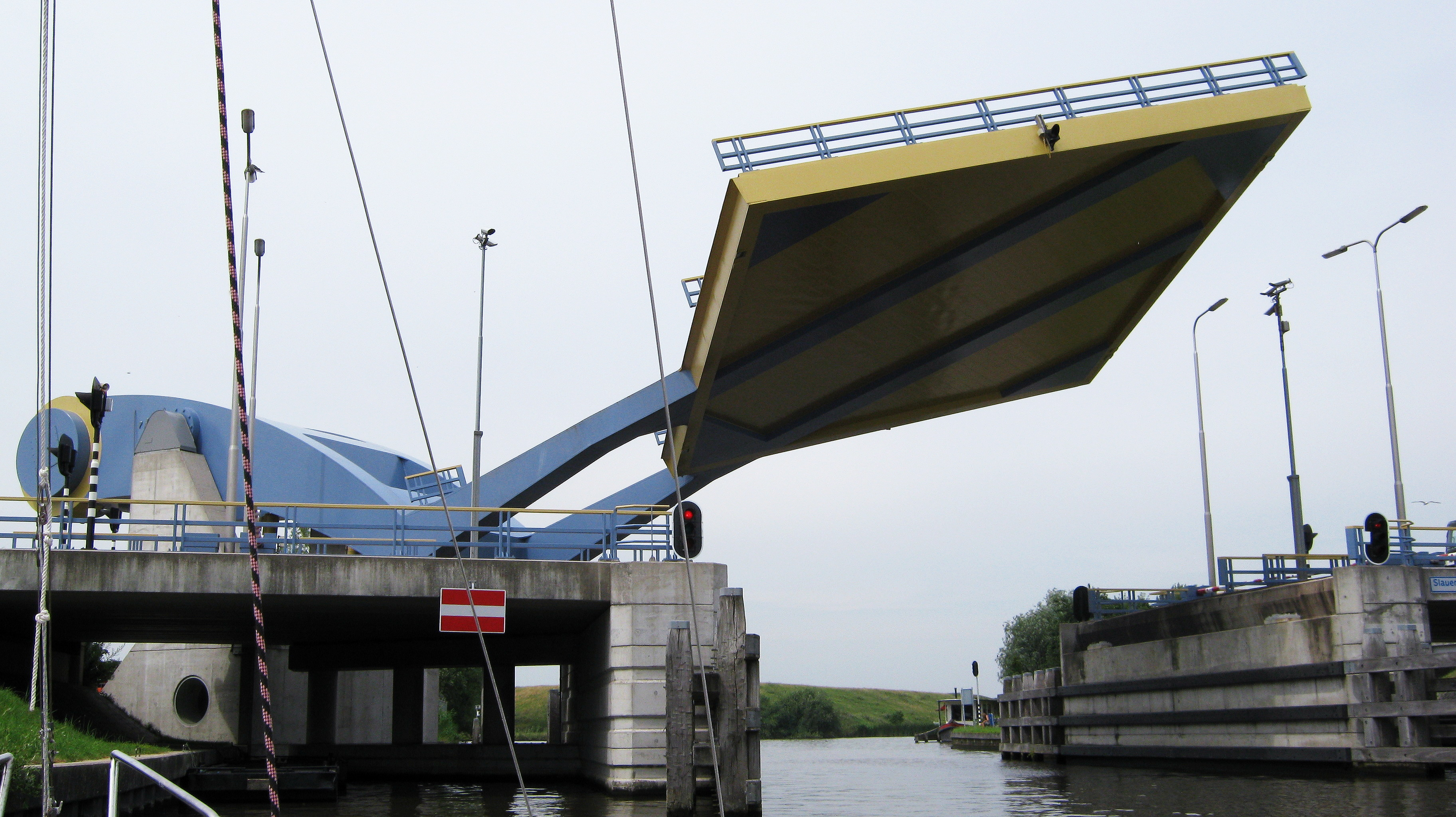 Slauerhoffbrug opening